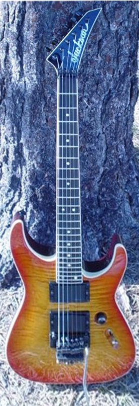 A 1987 Soloist archtop. This was made with Brazilian rosewood fretboard, mahogany body and a flamed maple top. It was finished with nitrocellulose lacquer.